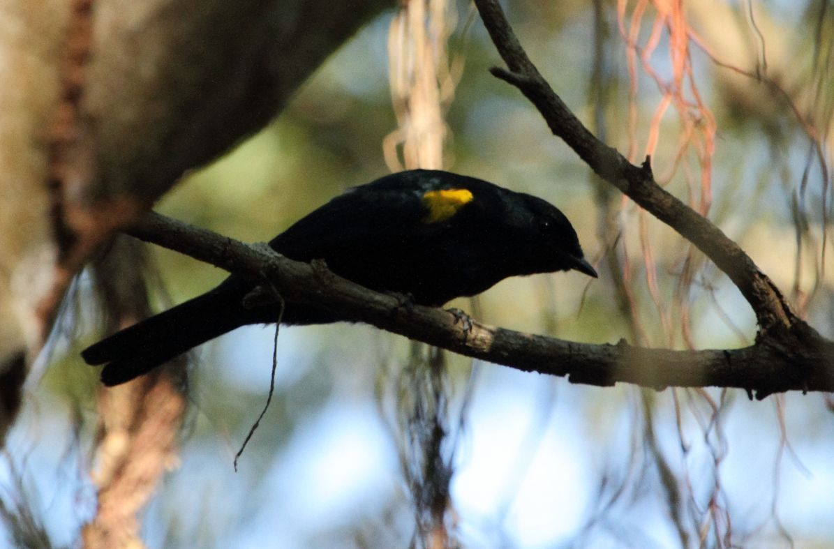 Male black cuckooshrike (Campephaga flava), Mamba River, KwaZulu-Natal, South Africa.